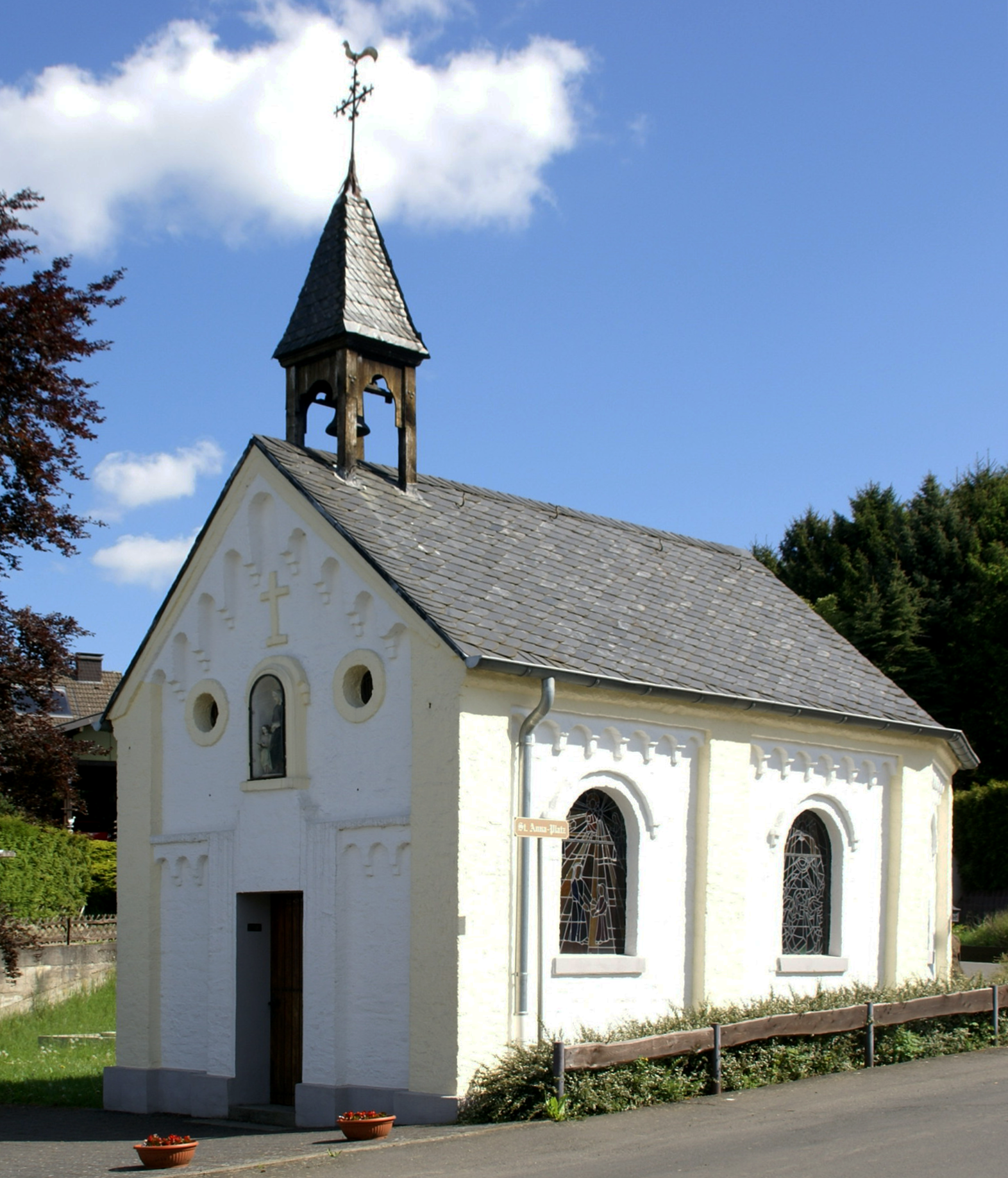 The chapel of St. Anna in Pleiserhohn